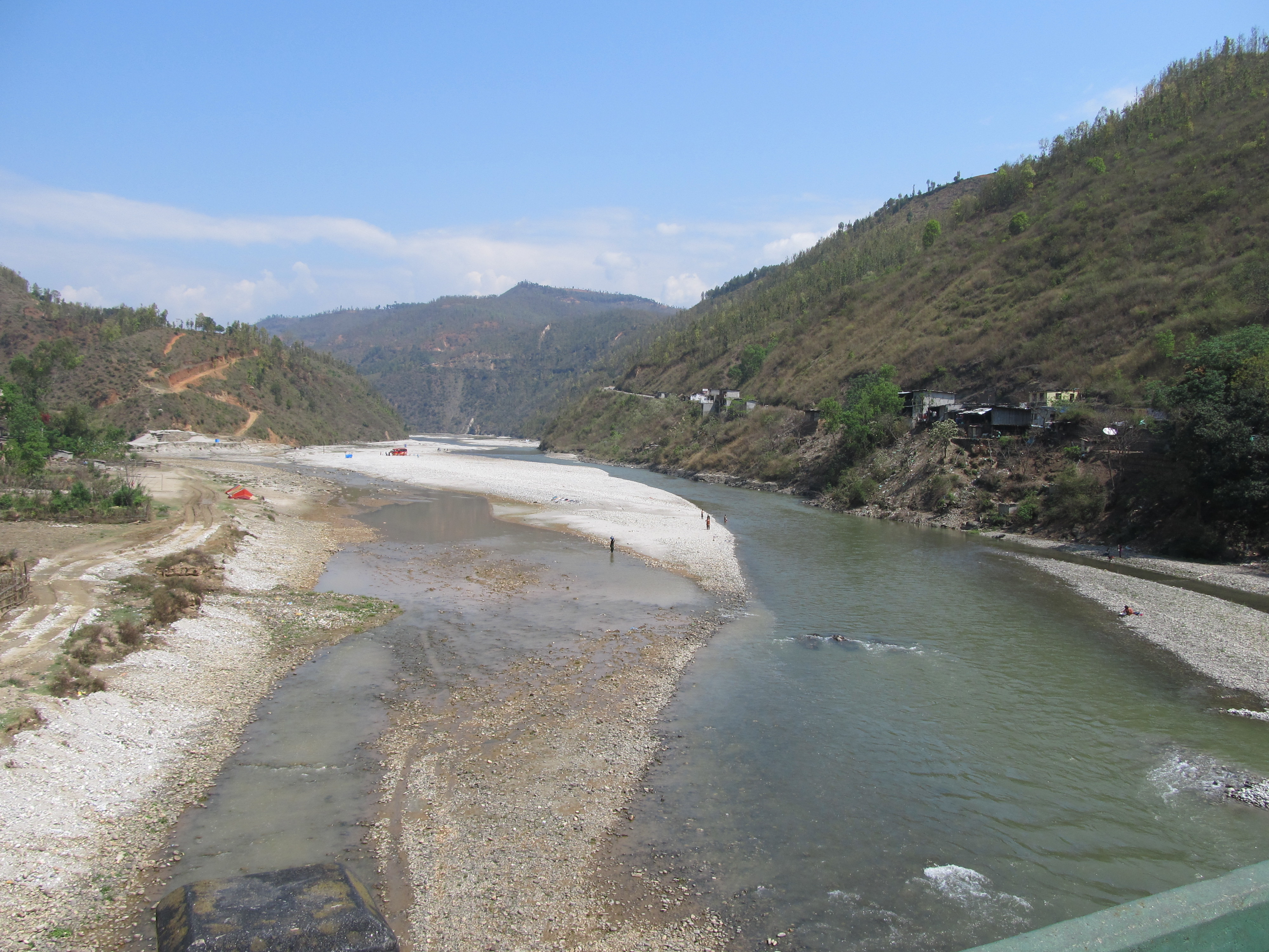 Crossing the Indrawati at Dolalghat, looking upstream